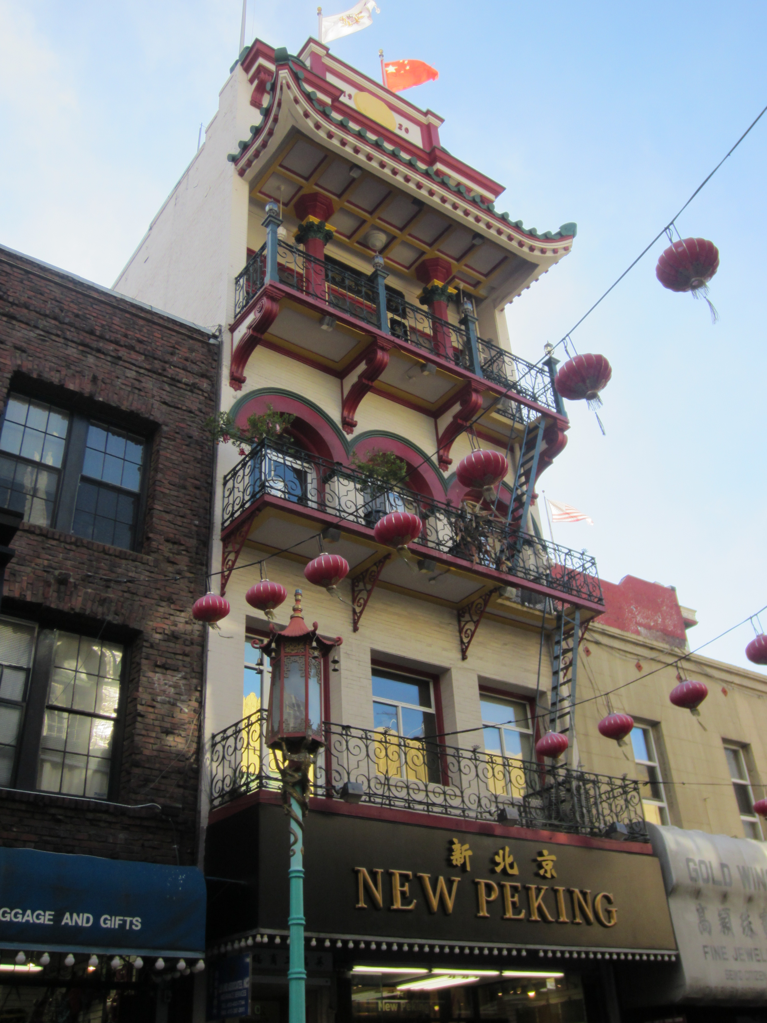 Chinatown, San Francisco, California (2013)